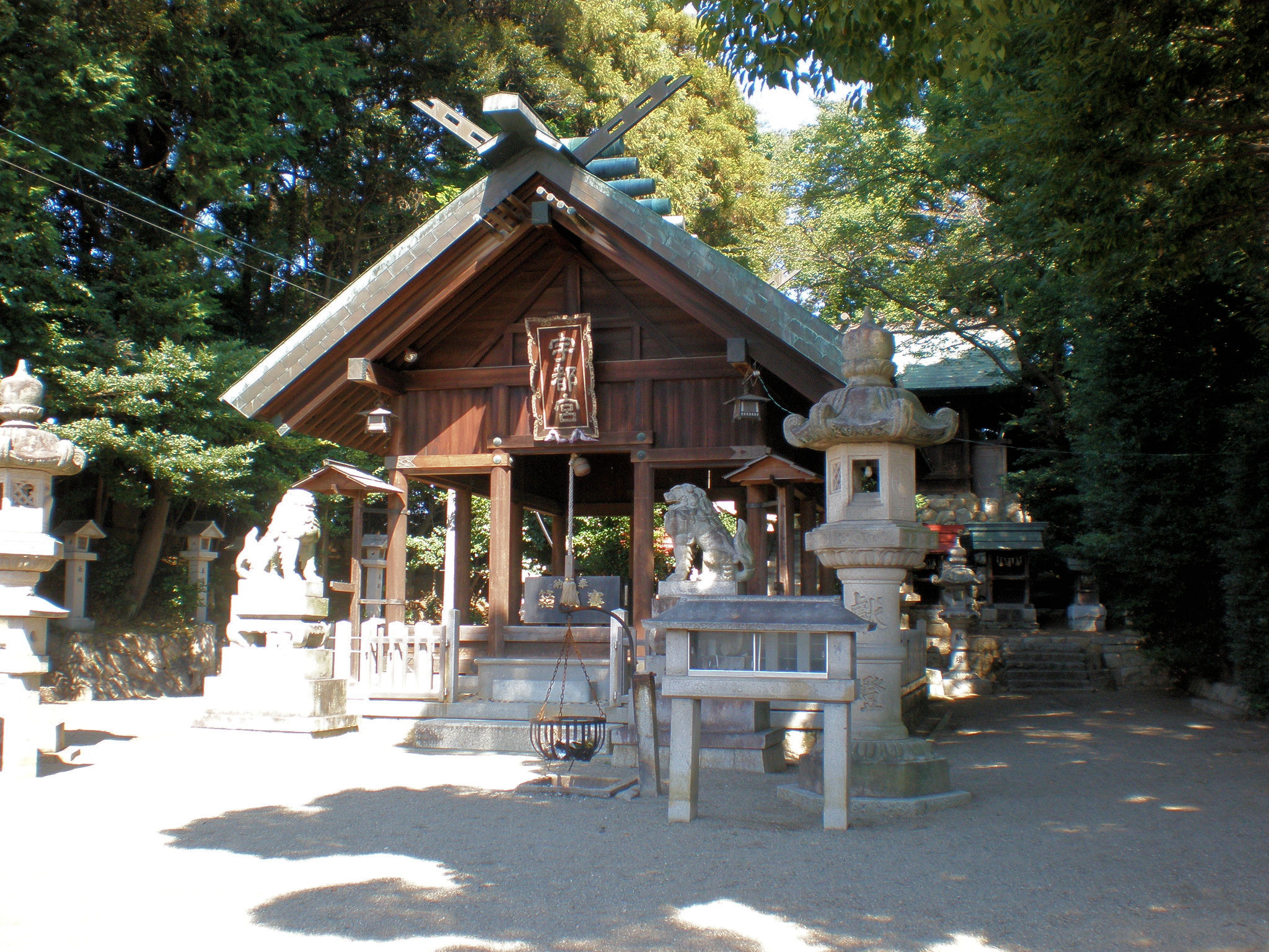 Utsunomiya Shrine